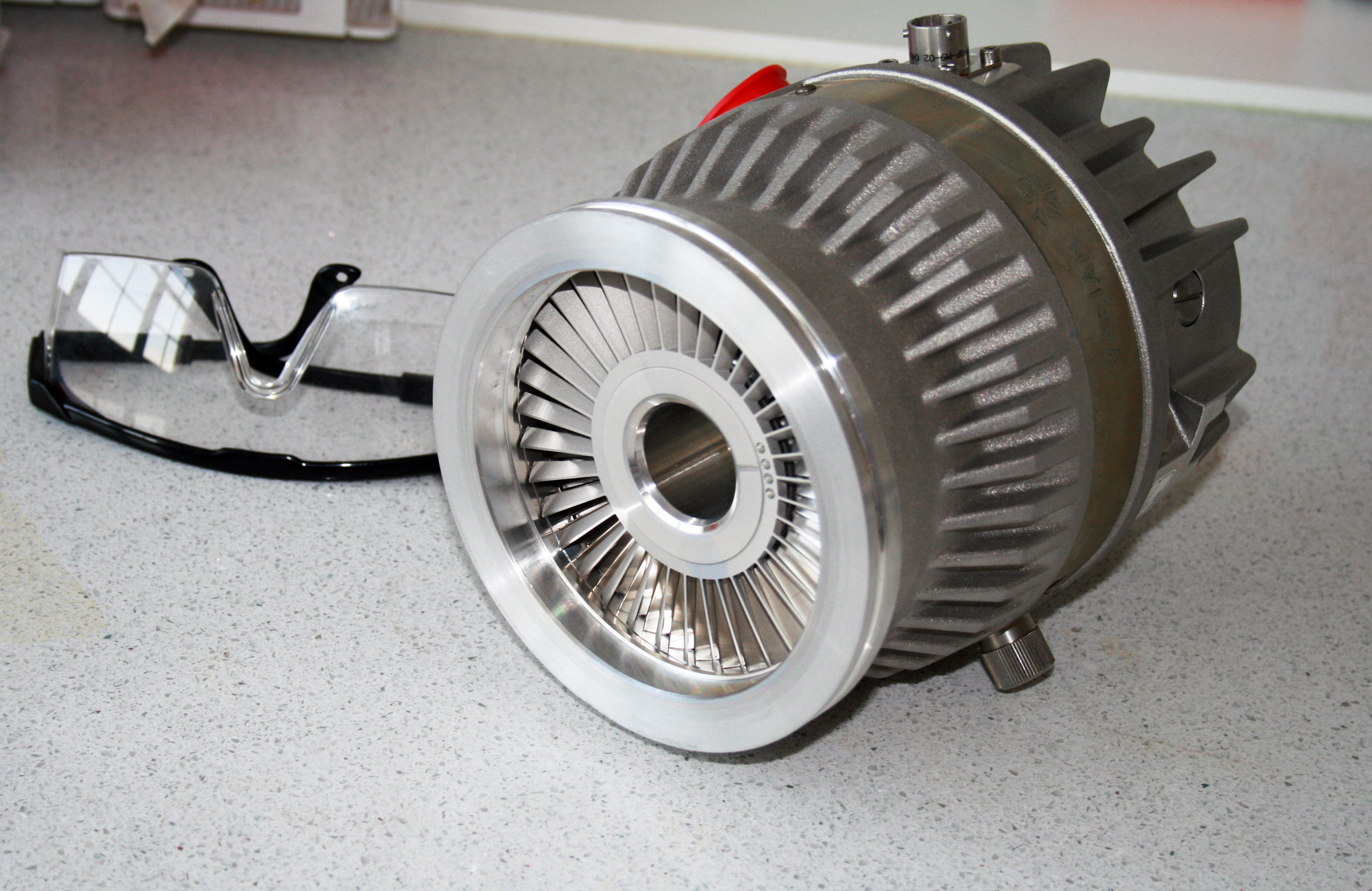 Turbomolecular pump for mass spectrometer ICP-MS